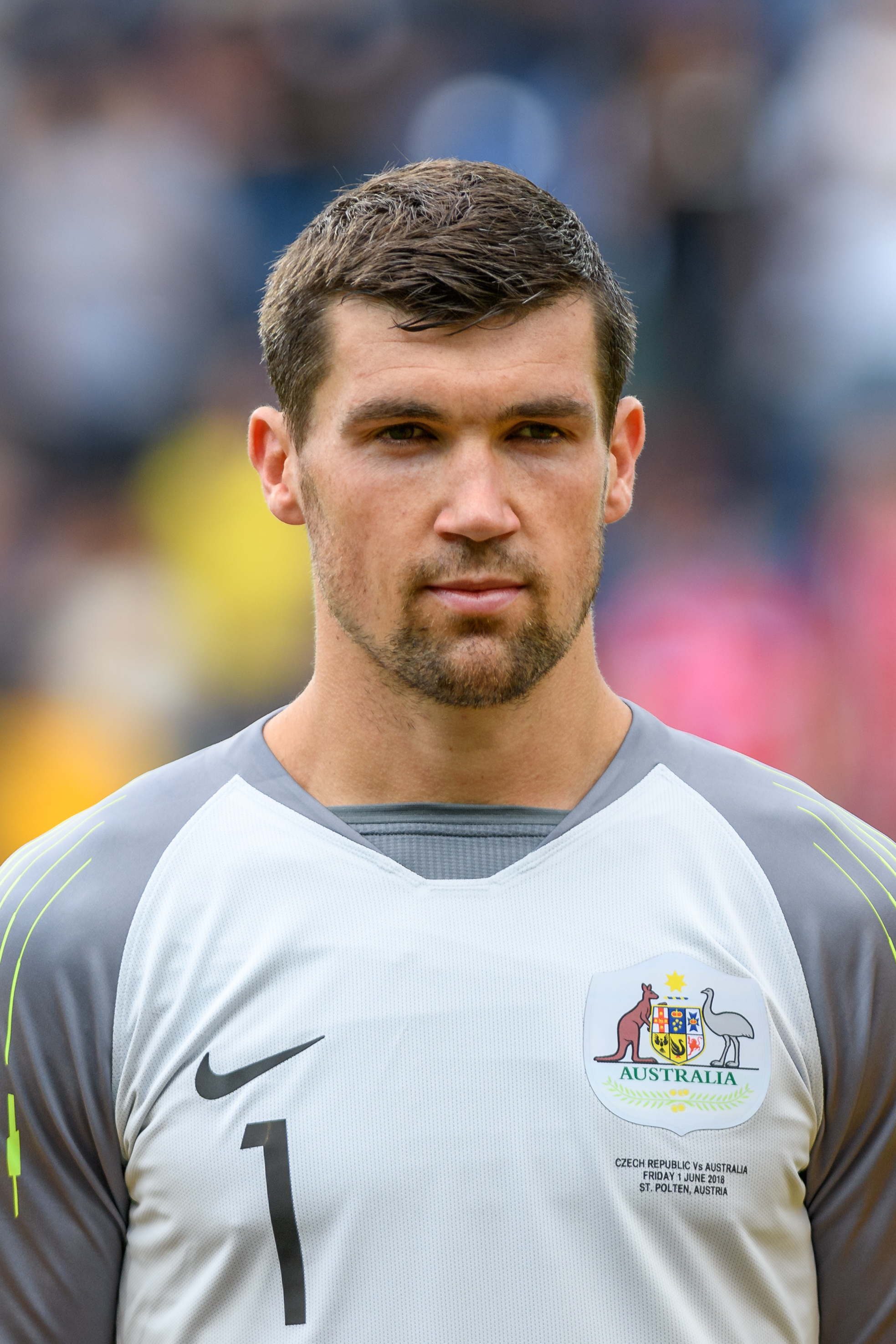 FIFA Friendly Match Czech Republic vs.Australia 2018/03/27. Picture shows Matthew Ryan (AUS).